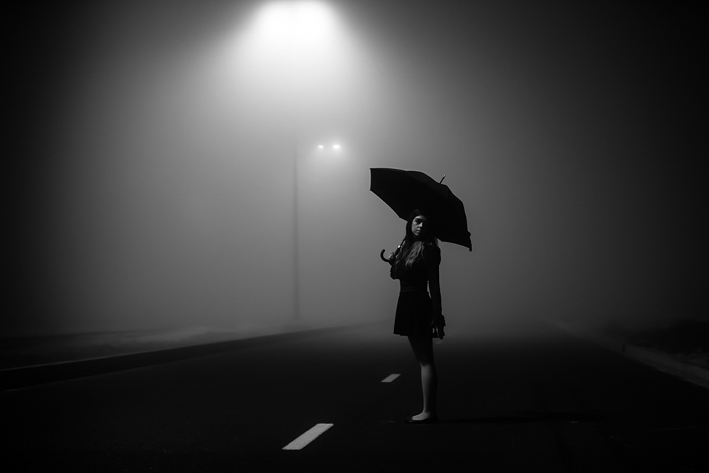 Faded Path by Bengin Ahmad